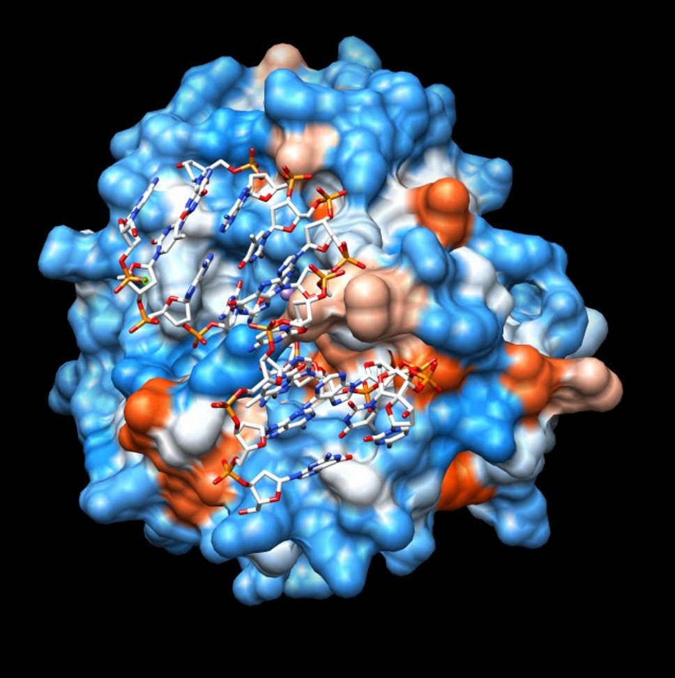 Positive amino acid residues on the surface of AP endonuclease kink DNA in order to induce the fit of the AP site in the active site.